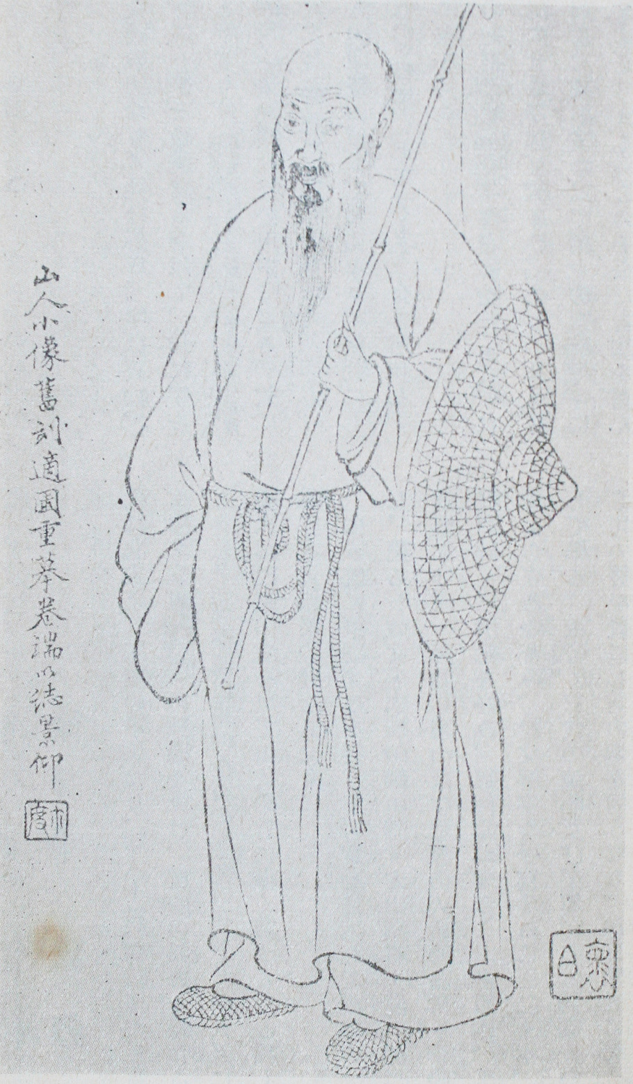 Portrait of Deng Shiru A Chinese calligrapher and seal carver ( ACE1739/1743-1805) during the Qing Dynasty (1644-1912).